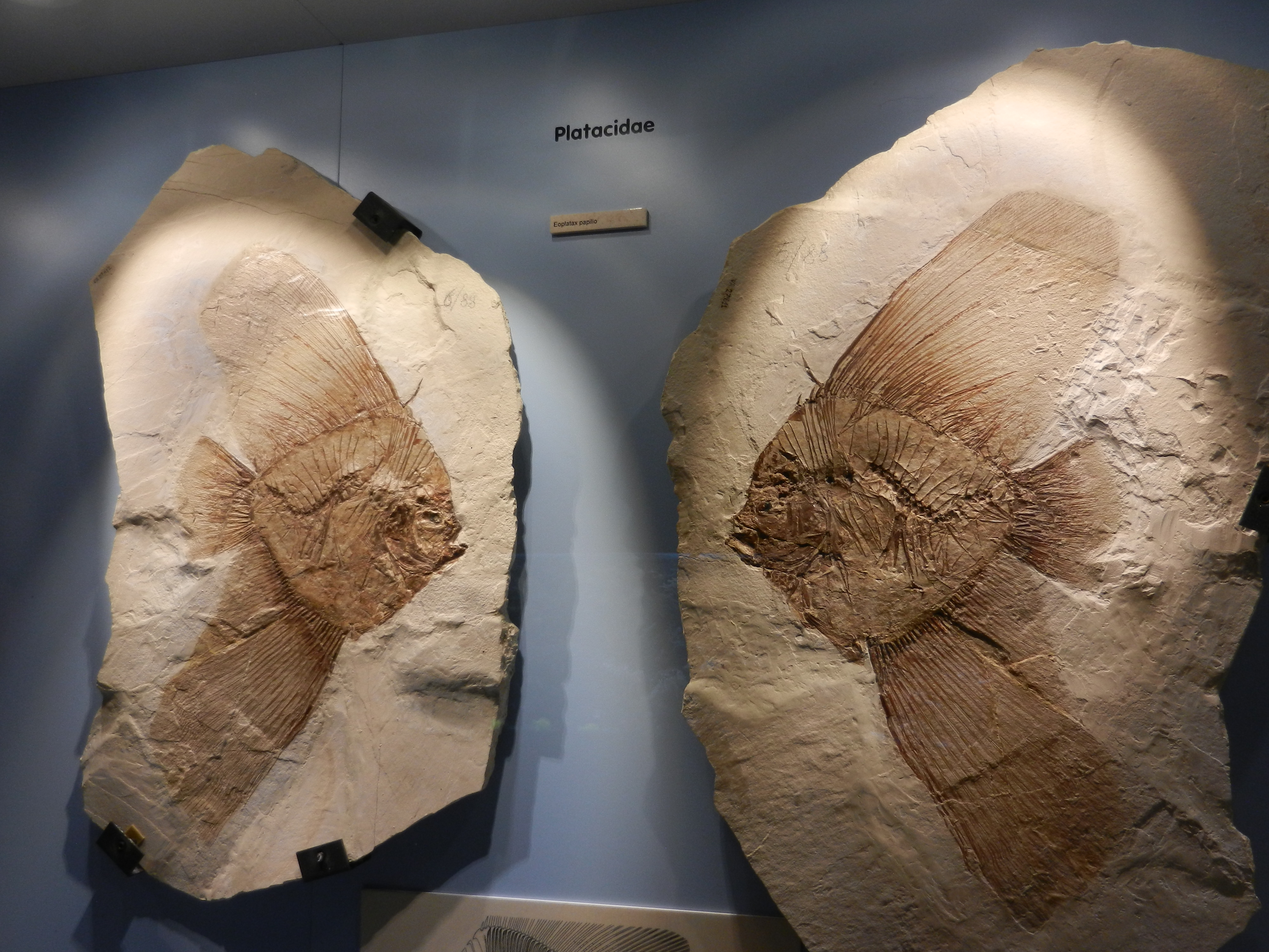 Fossil fish from the Museum in Bolca, Lessinia